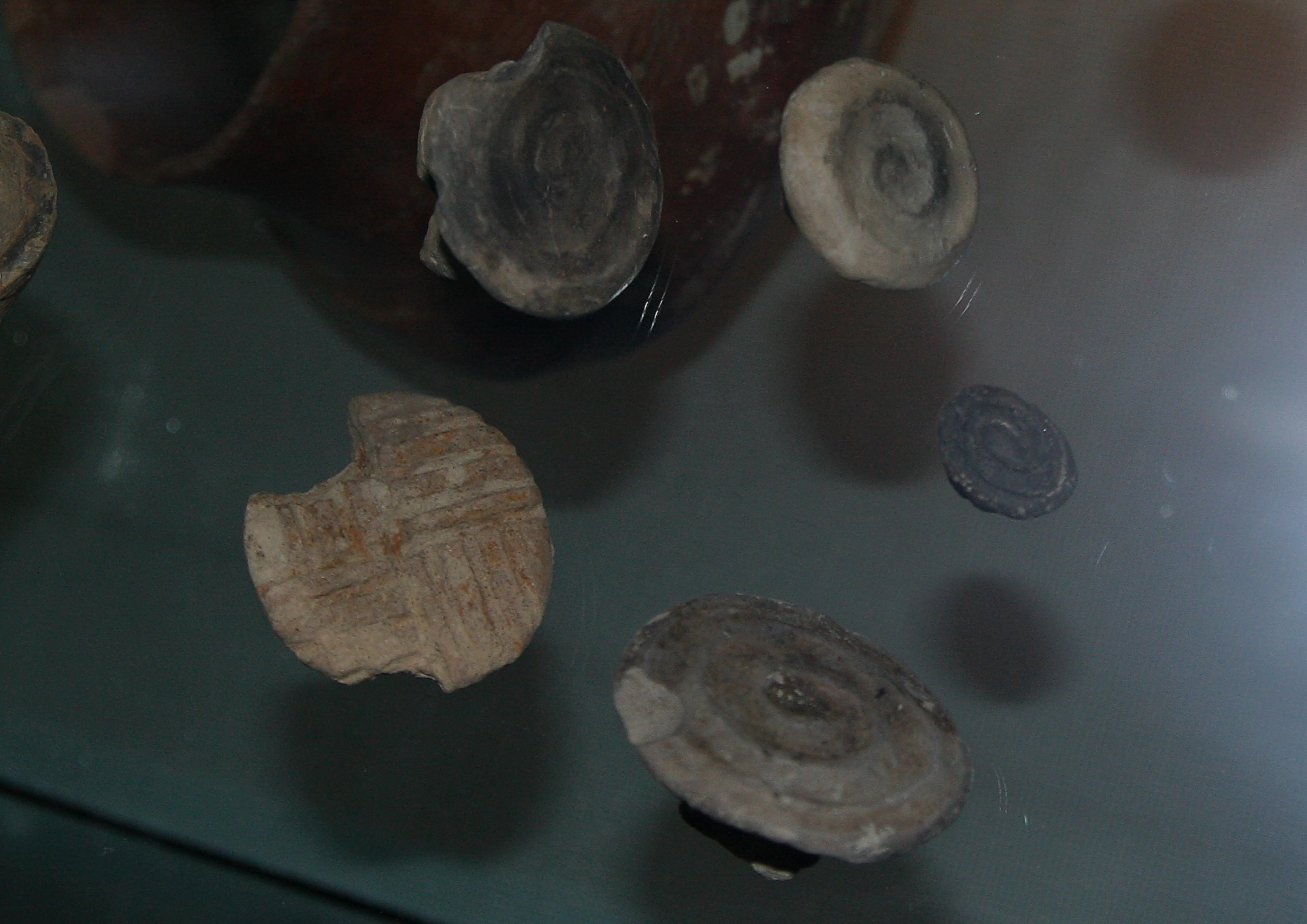 Pintadera from Cucuteni